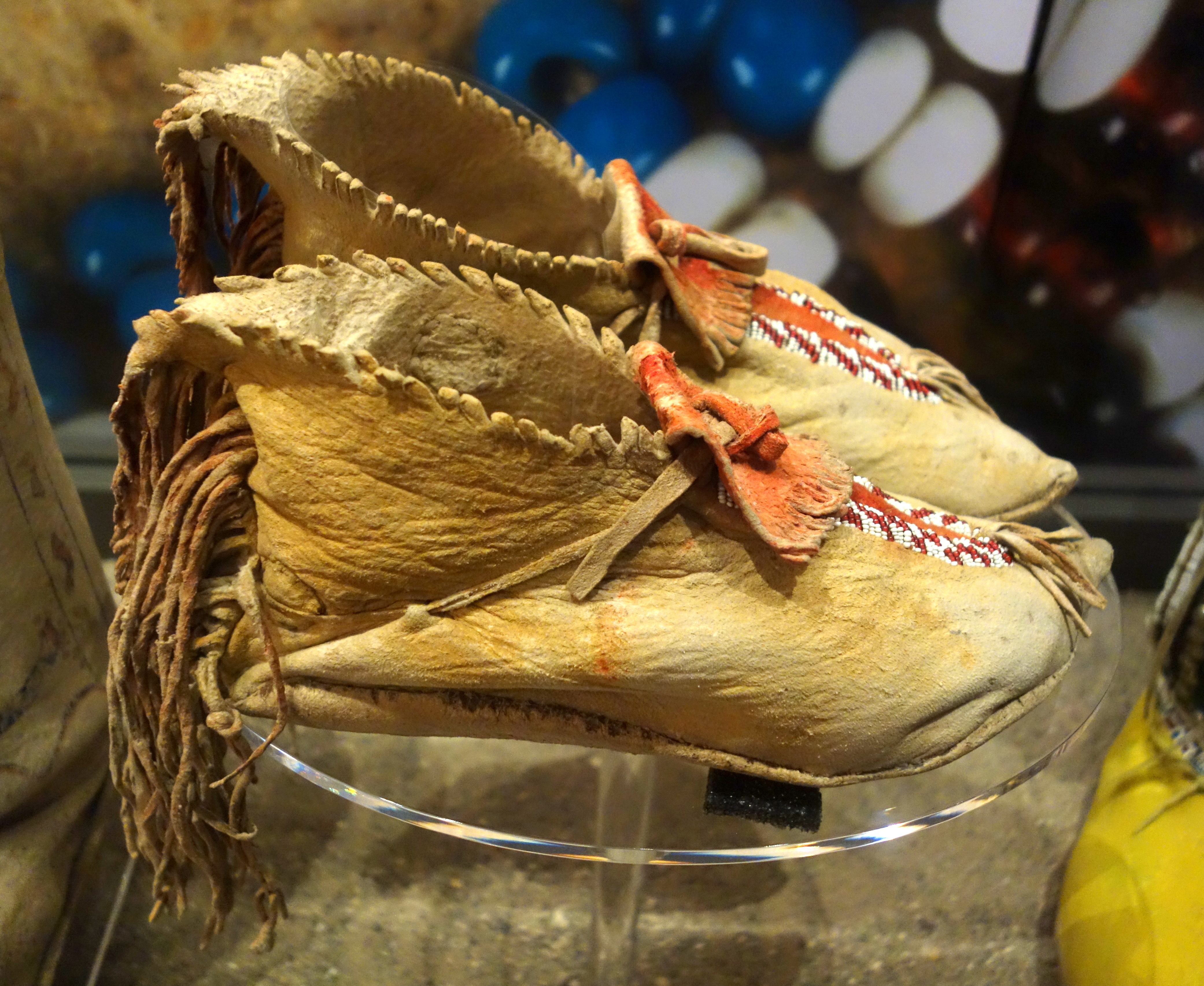 Exhibit in the Bata Shoe Museum, Toronto, Ontario, Canada. This item is old enough so that its design is in the public domain. The museum permitted photography without restriction.